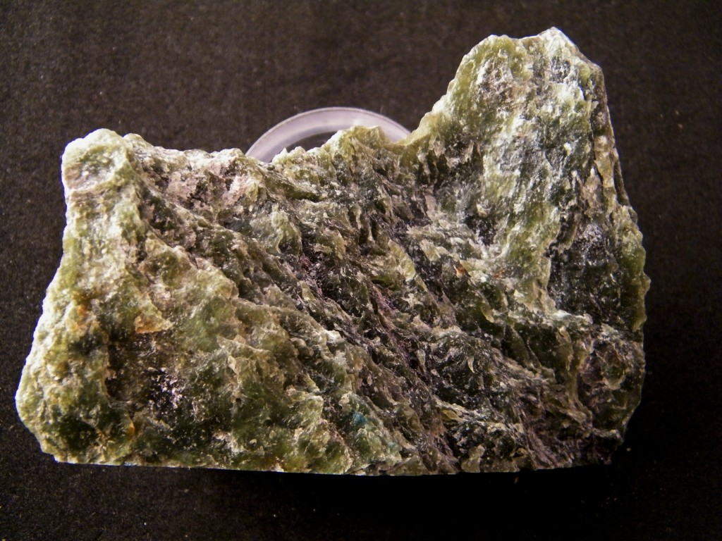 Nephrite (Dimensions: 3" x 2.5" x 1") Locality: Jordanów (Jordansmühl), Gogołów-Jordanów Massif, Lower Silesia (Dolnośląskie), Poland original description: Old collection piece of deep green Polish nephrite from the old Jordanów location.